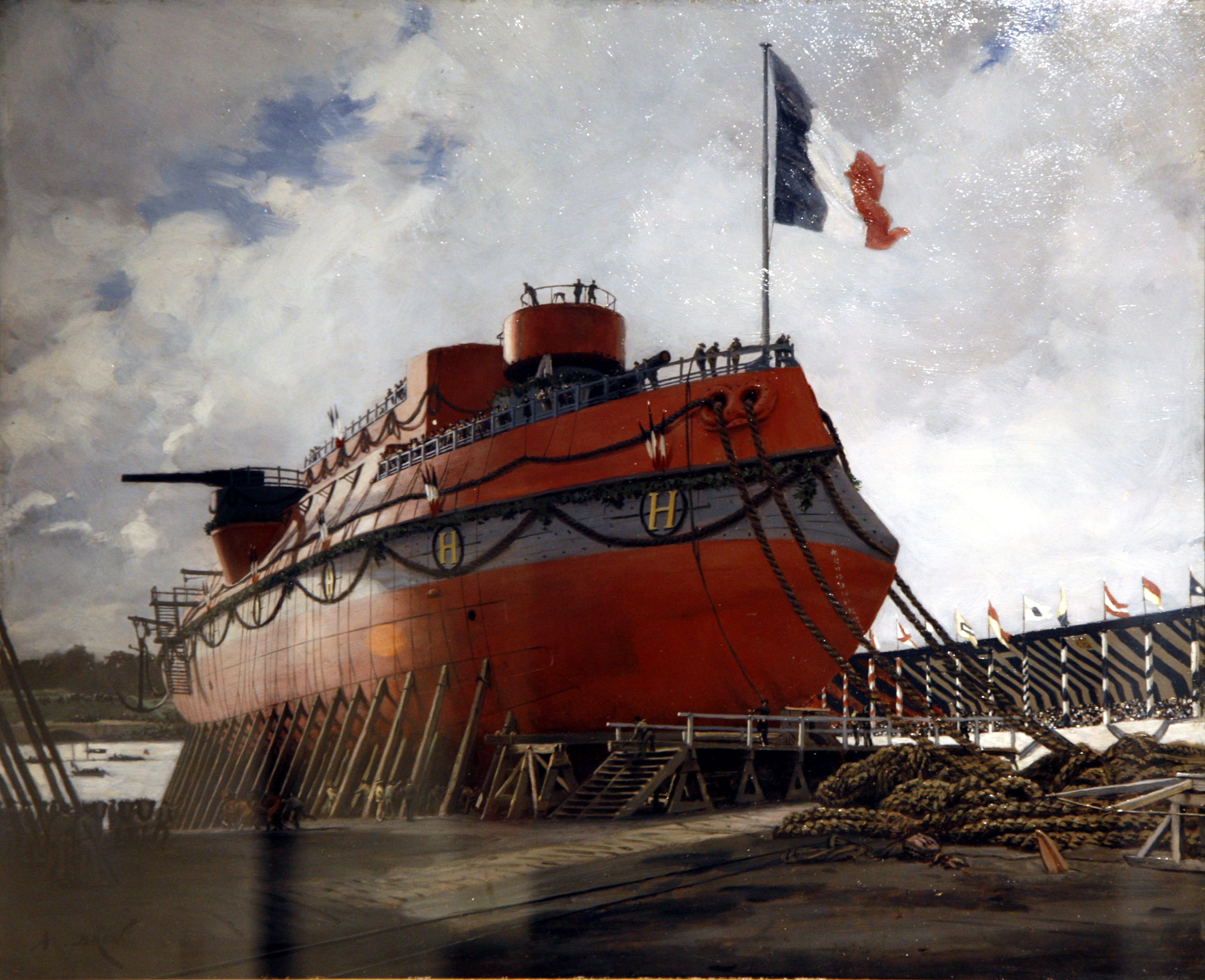 Launching of battleship Hoche